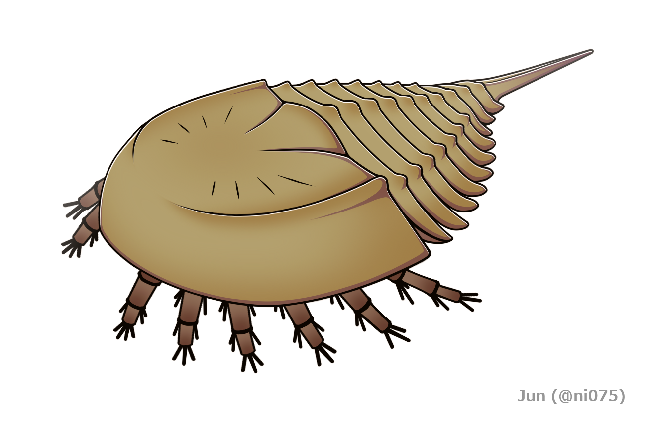 Reconstruction of Weinbergina opitzi, a devonian synziphosurine (Chelicerate, Euchelicerate).